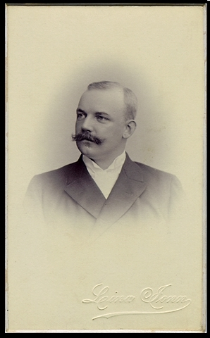 Thorvald Fürst (1866-1927), svensk ingenjör och yrkesinspektör